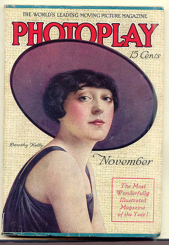 Silent Film actress Dorothy Kelly on the cover of the now the November 1916 issue of Photoplay Magazine.